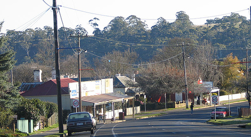 Hepburn Shops